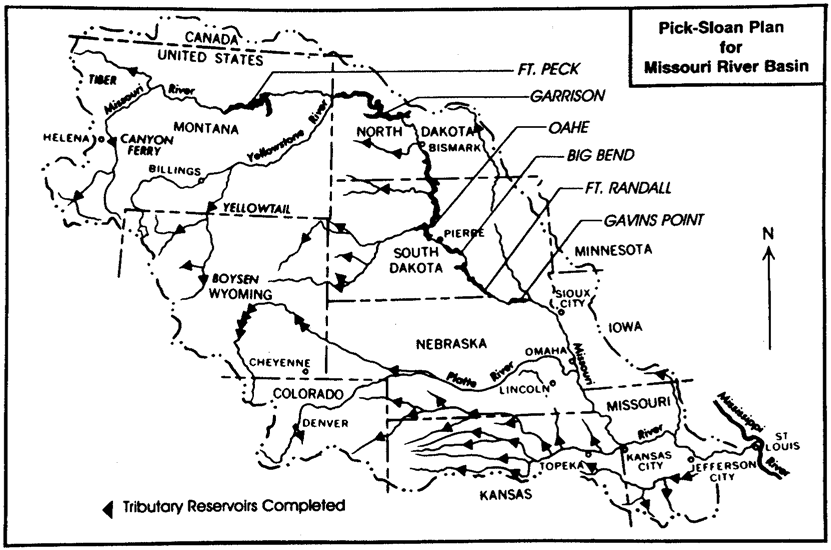 "Pick-Sloan Plan for Missouri River Basin". Note: The map highlights Fort Peck Dam which was built by the US Army Corps of Engineers in 1940 before the Pick-Sloan Project. It does not highlight Canyon Ferry Dam that has been part of Pick-Sloan but was constructed by the Bureau of Reclamation.